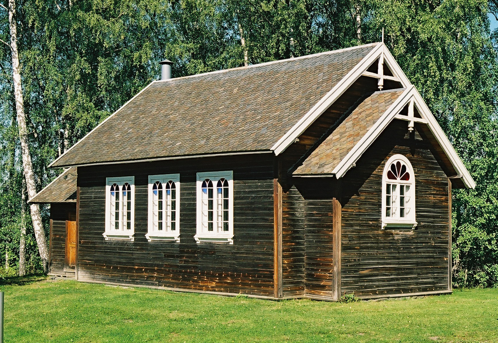 Assembly building of the IOGT temperance movement in Vågå, Norway. Built 1908. Now at Maihaugen open air museum, Lillehammer.